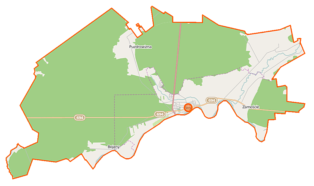 Map of Gmina Brok, Poland This map of Brok (gmina) was created from OpenStreetMap project data, collected by the community. This map may be incomplete, and may contain errors. Don't rely solely on it for navigation. Border coordinates52.759421.6874←↕→21.976152.6558